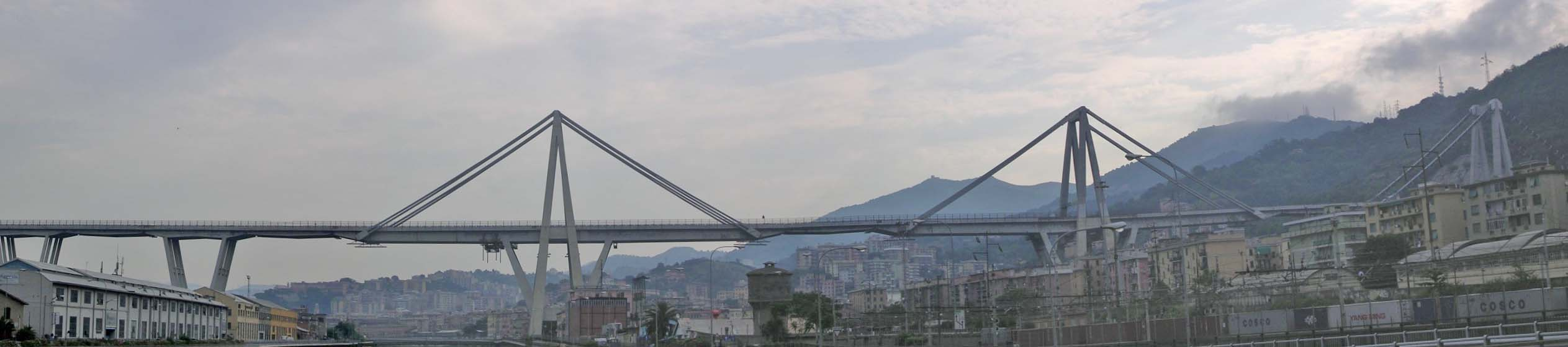 A view in Polcevera valley upstream to the North. Behind the Ponte Morandi near the coast and the harbour of Genova is Certosa, part of Rivarolo quarter in Genoa with houses in the steep hills of Apenin, modern apartment buildings from last century along the railway line Turino – Genova with a container train in the right of the photo. Taken from a bridge over the river Polcevera.